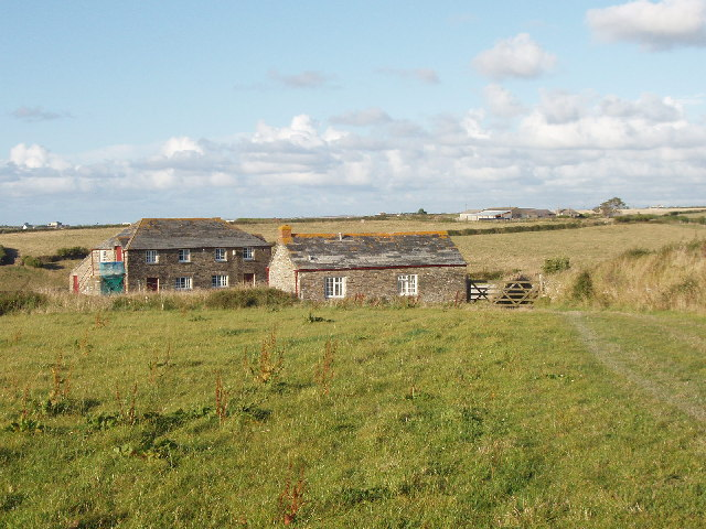 Pentire Farm, near St Eval. These were the outbuildings of the farm, which is now owned by the National Trust. The further building is used as a hostel for work parties.